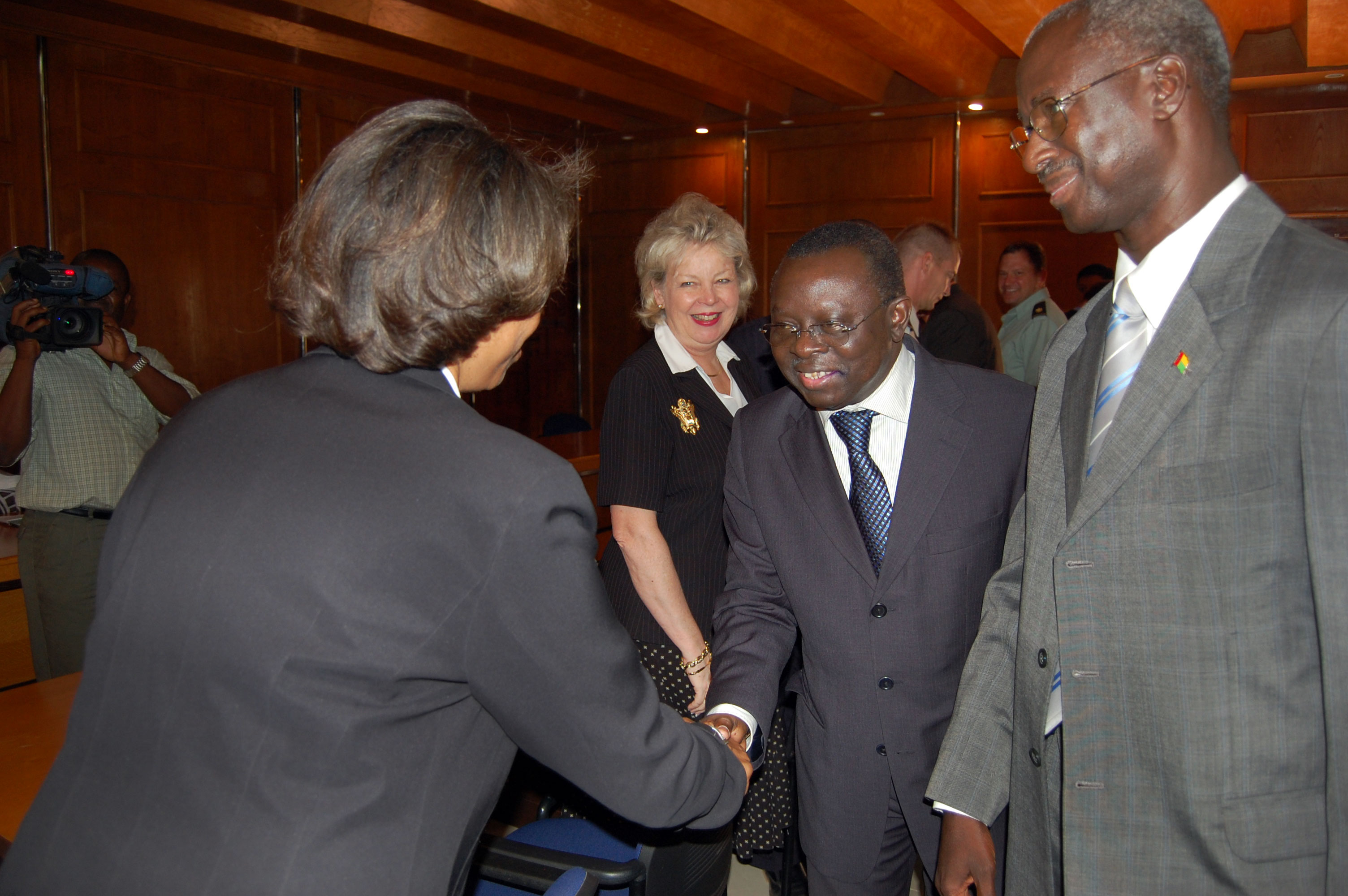 BISSAU, Guinea-Bissau - Guinea-Bissau's interim President Raimundo Pereria (center foreground) shakes hands with U.S. Ambassador to Guinea-Bissau Marcia Bernicat during a U.S. diplomatic visit April 23, 2009. Also part of the American delegation was Ambassador Mary C. Yates (center background), U.S. Africa Command's civilian deputy. Yates stressed that the U.S. military supports, and takes its directions from, elected civilian leadership. Guinea-Bissau's former president was assassinated March 2 by a group of soldiers. A presidential election is scheduled for late June. (Photo by Vince Crawley, U.S Africa Command)